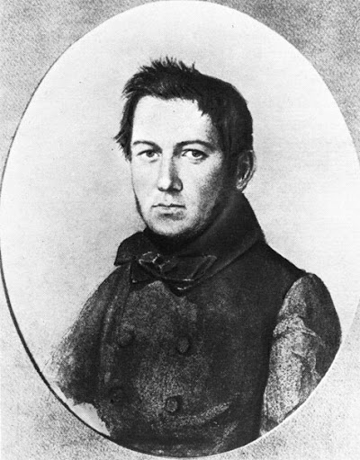 Mikhail Glinka in the 1840's, portrait by Yanenko